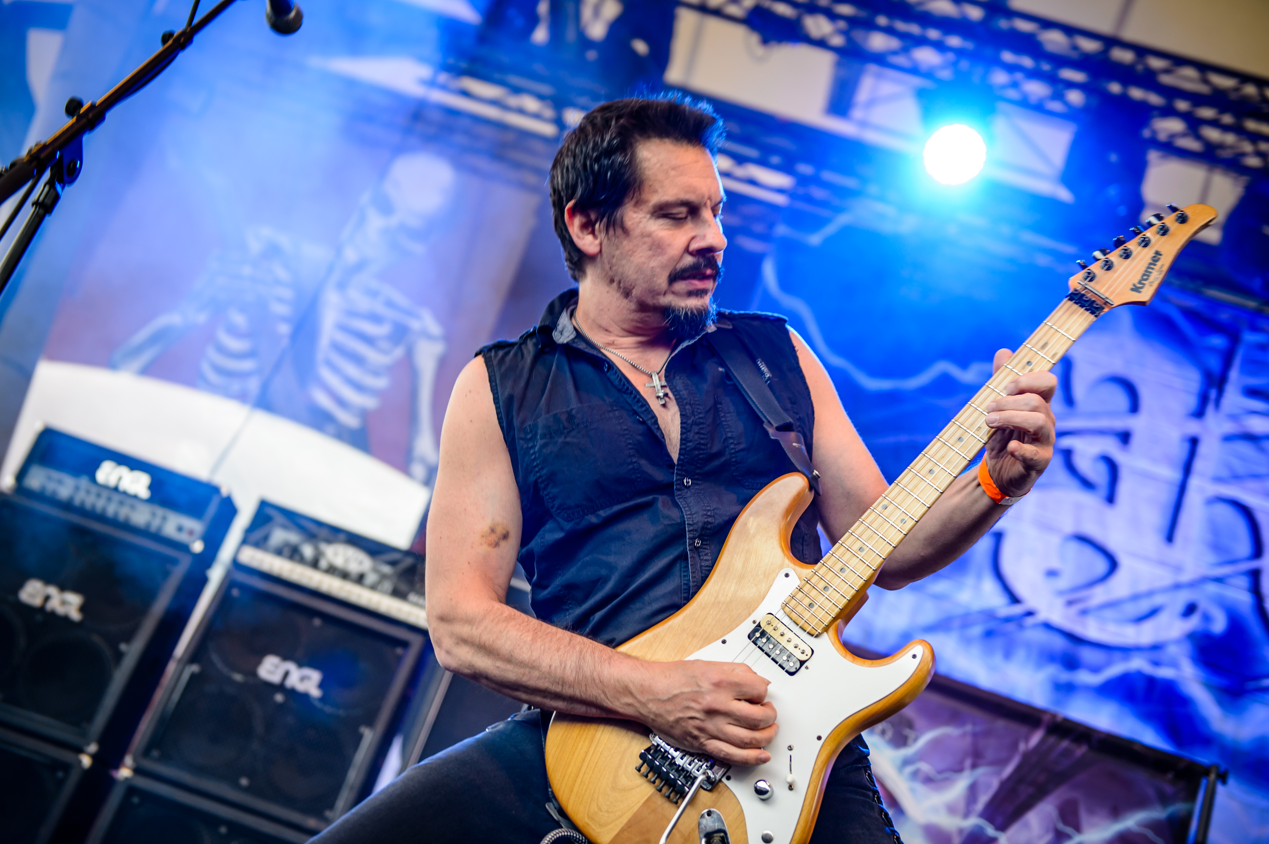 Riot V; RockHard Festival 2016